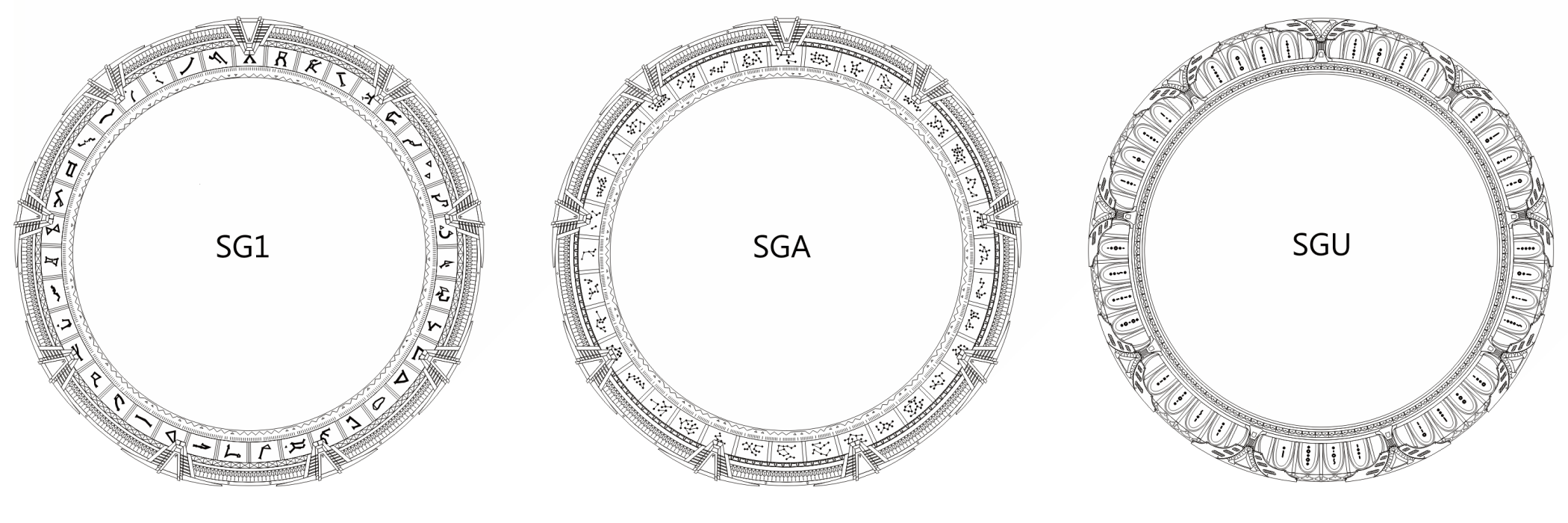 Schema all stargate